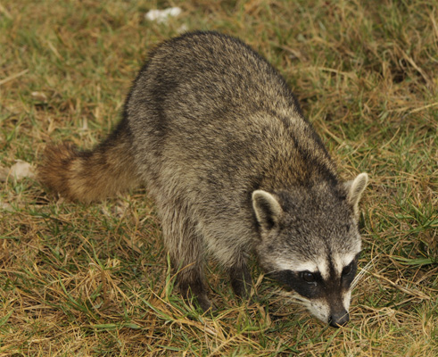 The Cozumel raccoon (Procyon pygmaeus)Photographed on the northern end of Cozumel, Mexico.